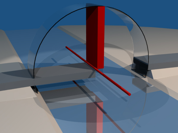 Opening bridge by rotating around the y-axis